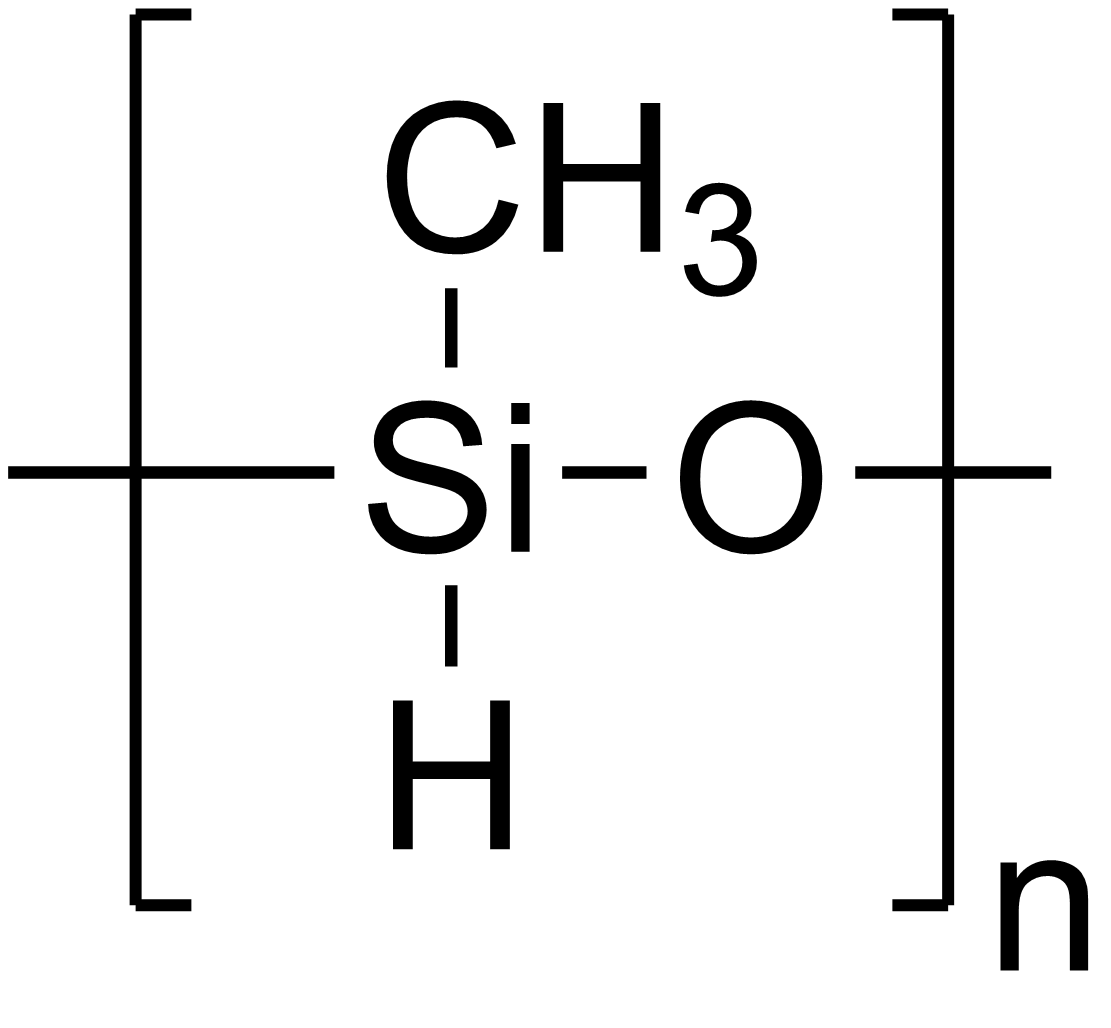 Chemical structure of polymethylhydrosiloxane